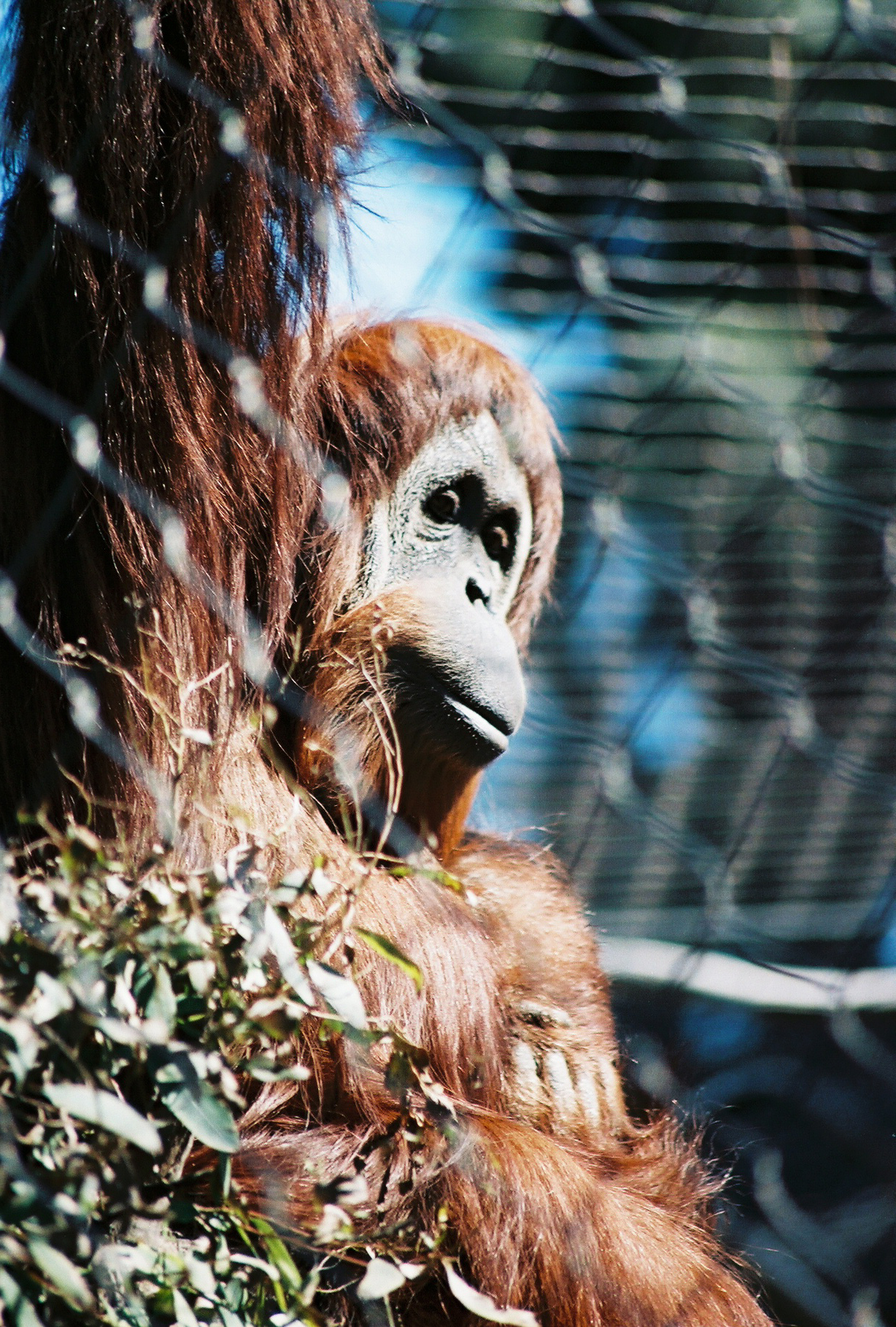 Orangutan Photographed at Chaffee Zoo in Fresno, CA